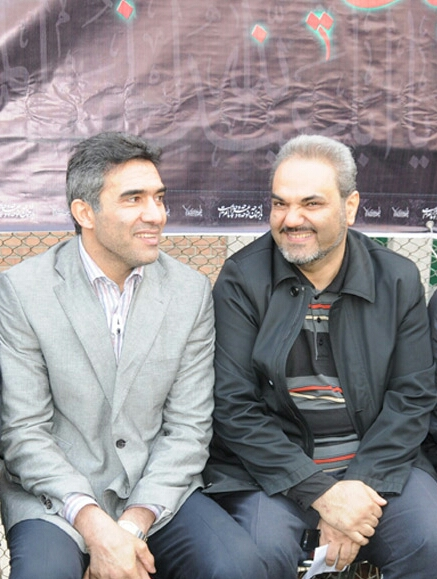 Javad Khiabani (right) - Ahmad Reza Abedzadeh (left)